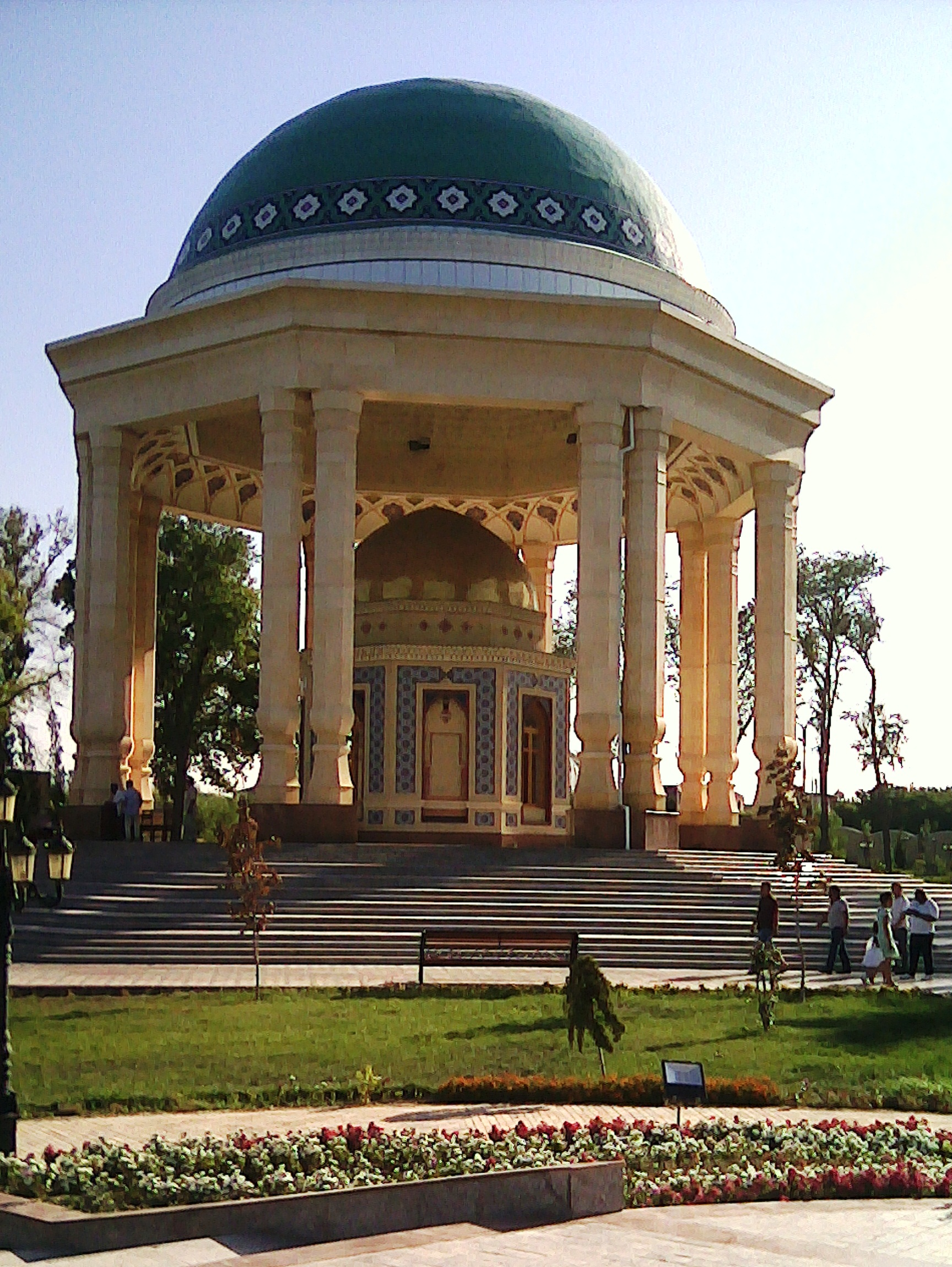 Kamoli Khujandi Mausoleum, Khujand